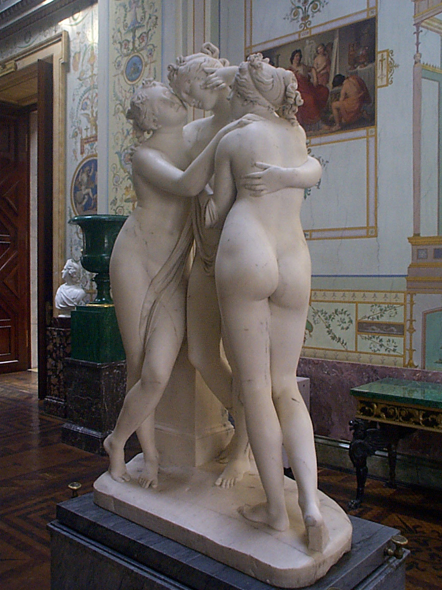 Antonio Canova, The Three Graces. Location: Hermitage, St. Petersburg